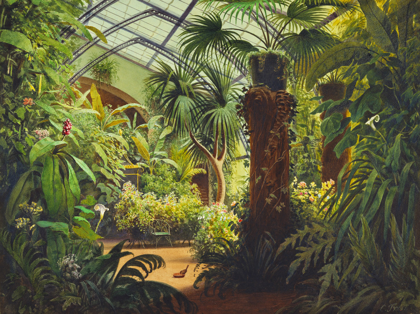 lush growth in the winter garden glasshouse - palms reaching up to the glass roof. The glasshouse lay to the east of Schloss Friedenstein, between the castle and the Orangery